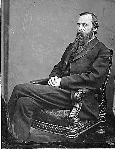 Hon. Rufus Mallory, Oregon. From National Archives and Records Administration: Title:Mathew Brady Photographs of Civil War-Era Personalities and Scenes. Creating Organization: War Department, Office of the Chief Signal Officer. Arrangement: Arranged numerically by War Department-assigned item number. Scope and Content Note: This series consists of several thousand glass plates (and modern derivativecopies including prints, duplicate negatives, interpositives, and microfilm)which were produced by the photographer Mathew Brady and his associates.